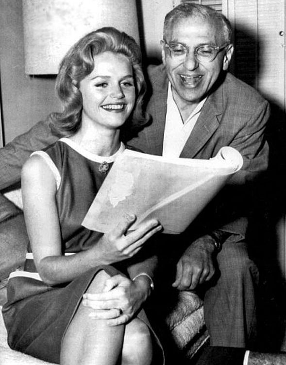 Lee Remick rehearsing with director George Cukor for Something's Got to Give, an ill-fated project. It is an unfinished film first starring Marilyn Monroe, who died during its production. She was temporarily replaced by Remick, but the film was ultimately abandoned.